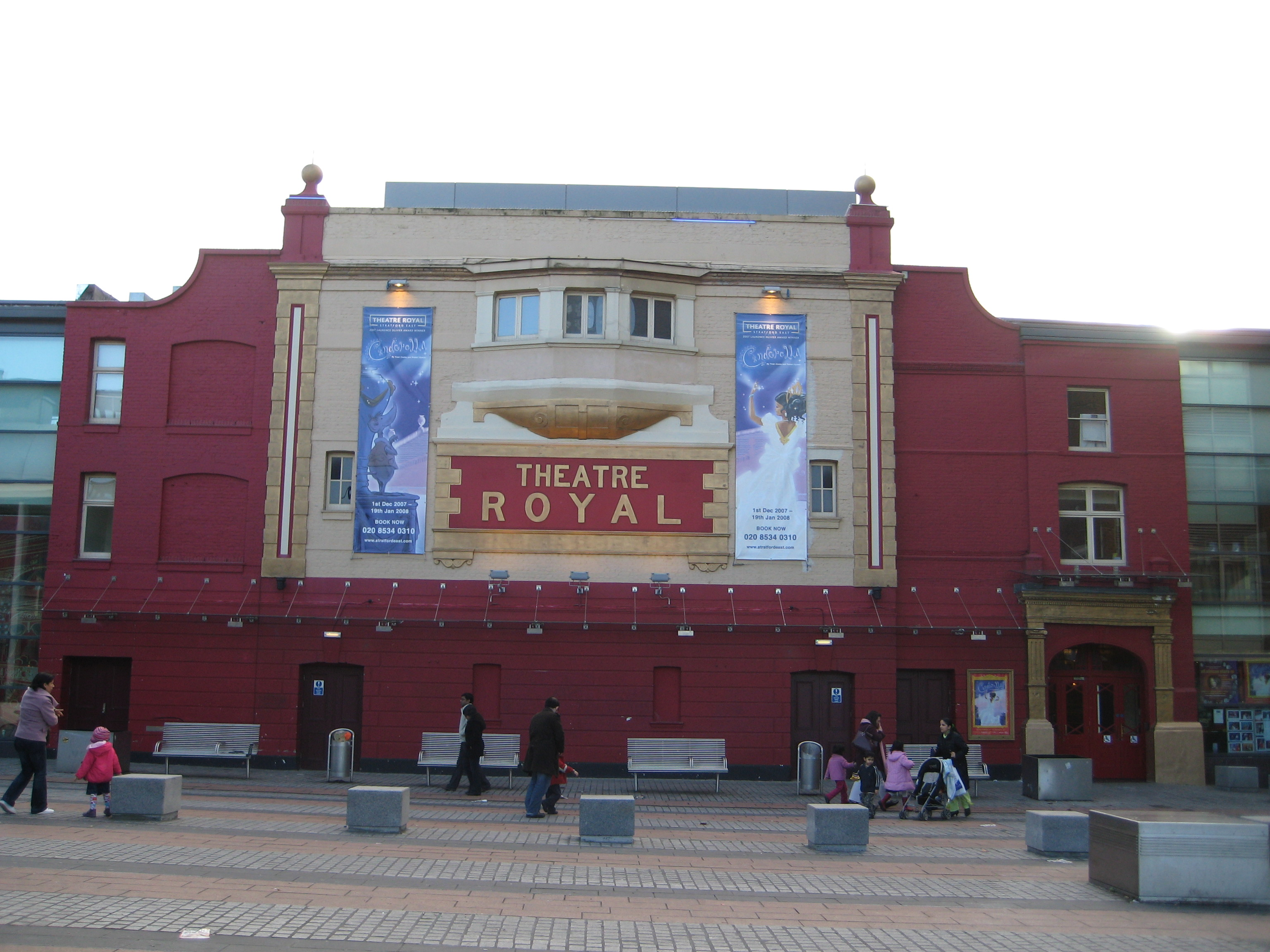 Theatre Royal Stratford East, a theatre in Stratford in the London Borough of Newham. It is the home of the Theatre Workshop company.